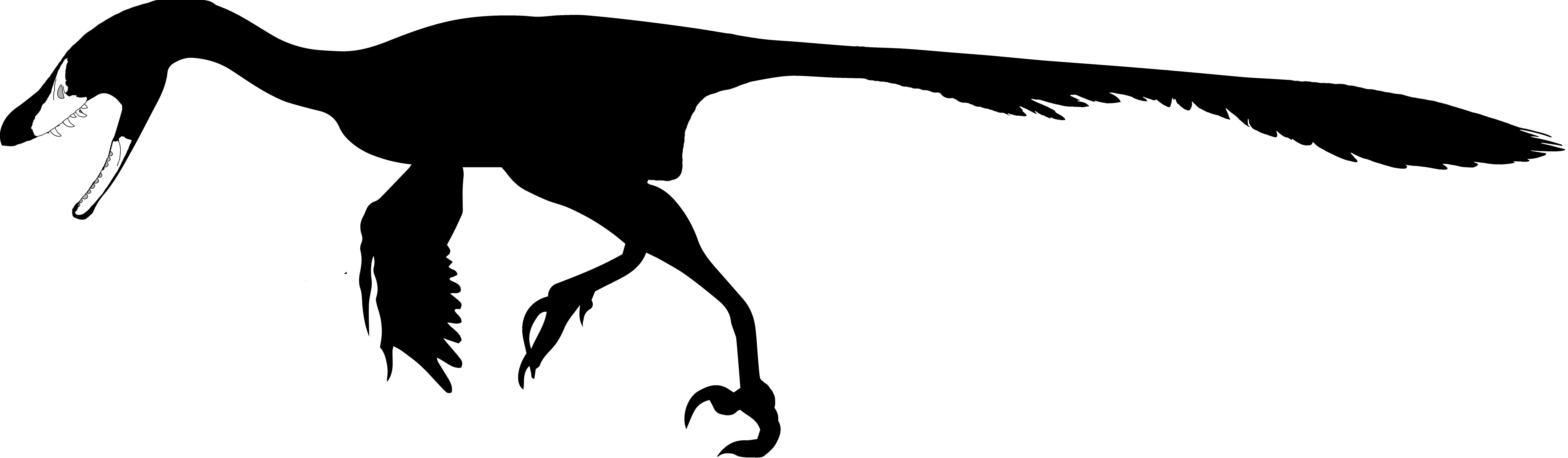 Acheroraptor temertyorum fosil remain holotype ROM 63777